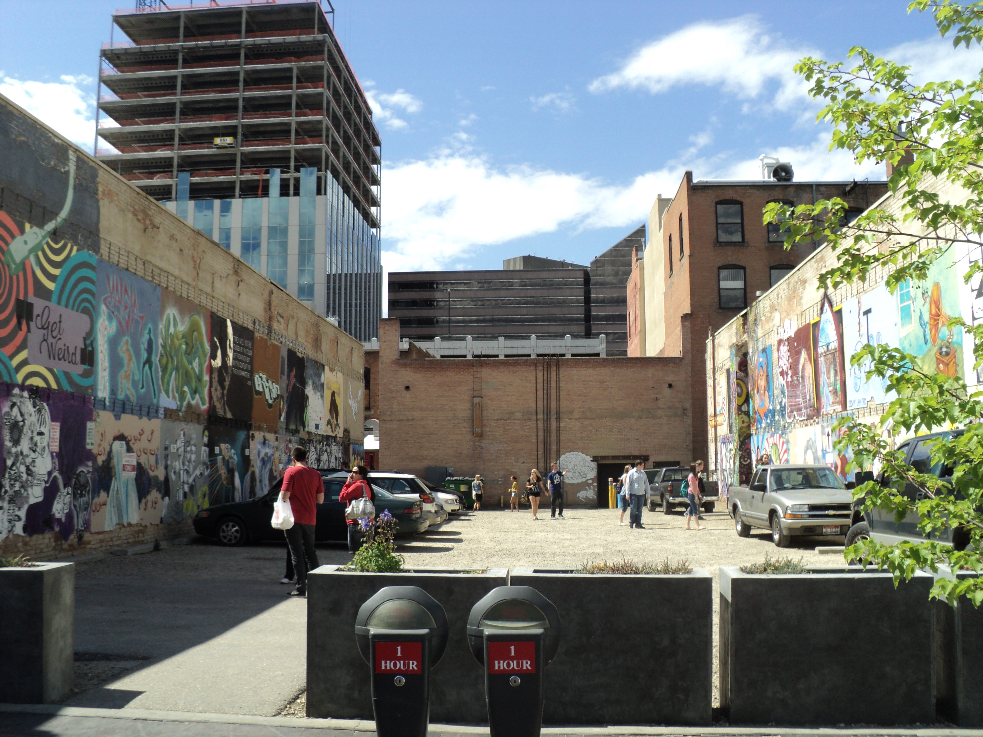 Boise's Freak Alley (technically in the background) is known for its extensive murals and graffiti. The immediate area shown is the site of six Ingress portals, controlled as of this writing by the "Enlightened."